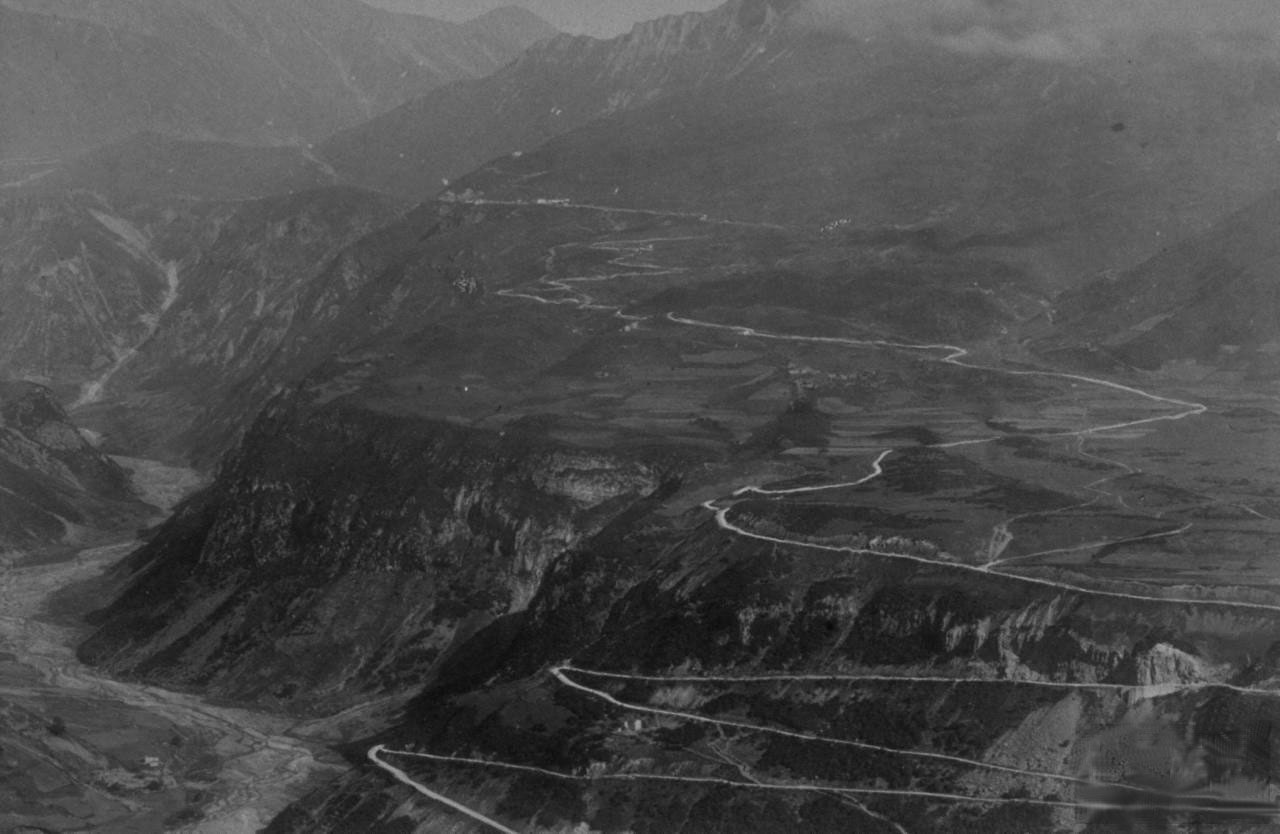 Dramatic view of government road from Tiflis (Tbilisi) in Georgia through Caucasus Mountains and the only road between Europe and Asia, from unidentified Briton's personal photo album.